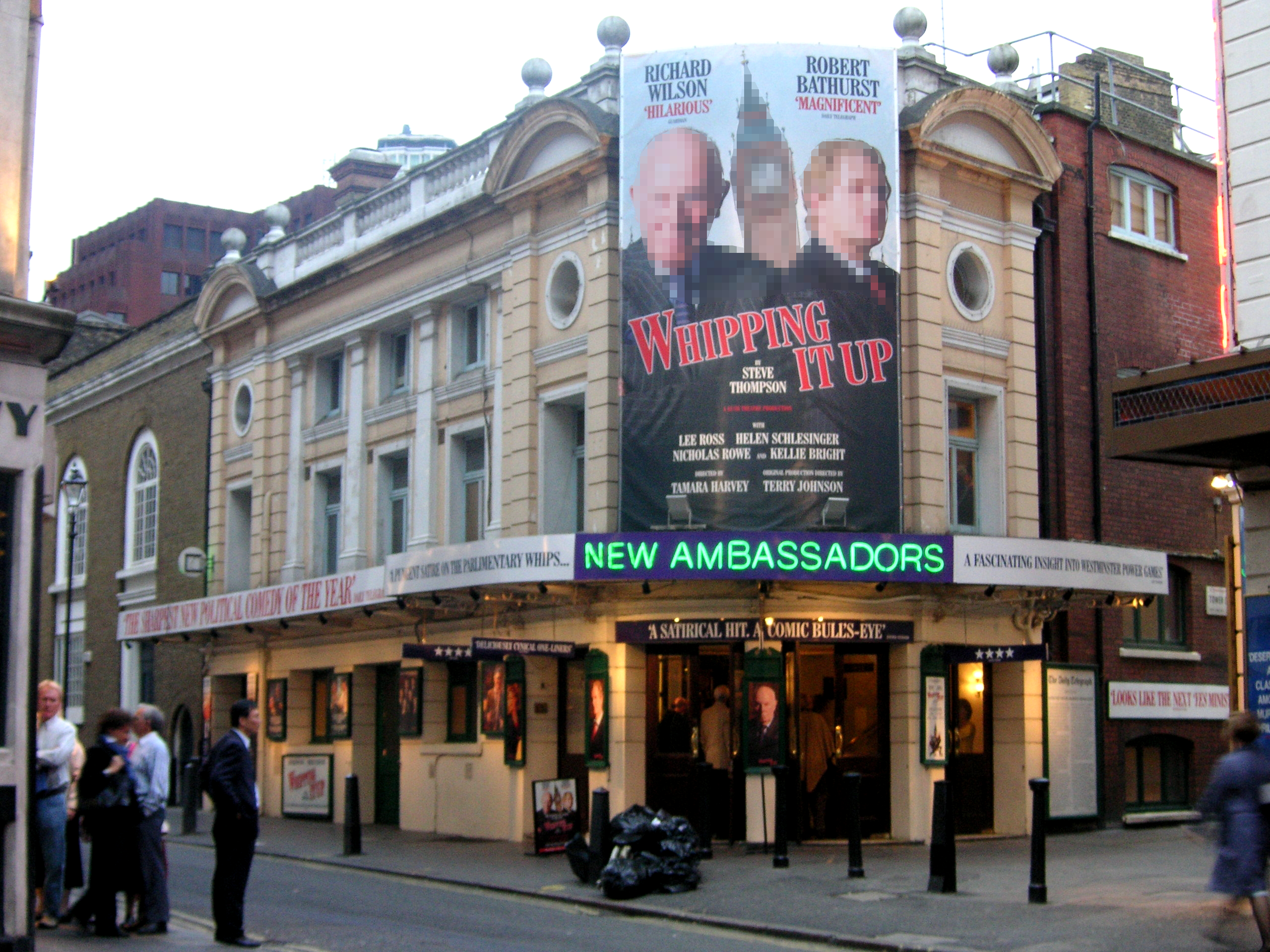 The New Ambassadors Theatre, London, England.